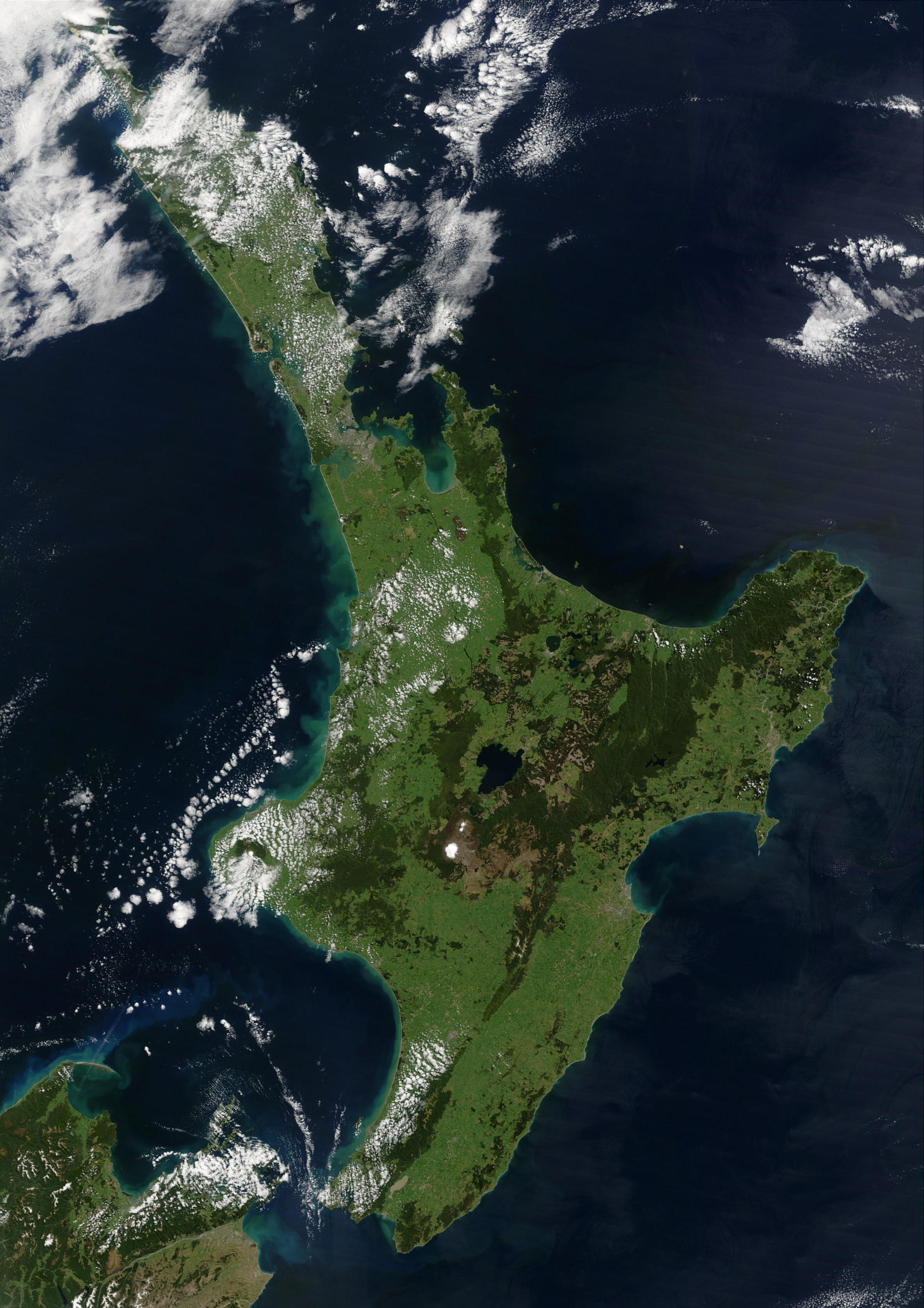 This satellite image of New Zealand's North Island has been cropped from an image of both of New Zealand's main islands. "This stunning true-color image provides a rare, cloud-free look at the island nation of New Zealand, including most of its North and South Islands. This scene was acquired by the Moderate Resolution Imaging Spectroradiometer (MODIS), flying aboard NASA’s Terra satellite, on October 23, 2002. New Zealand is situated in the South Pacific Ocean, roughly 2,000 km (1,250 miles) southeast of Australia. Wellington, the capital of New Zealand, is located on the southern tip of the North Island, looking across Cook Strait toward South Island."